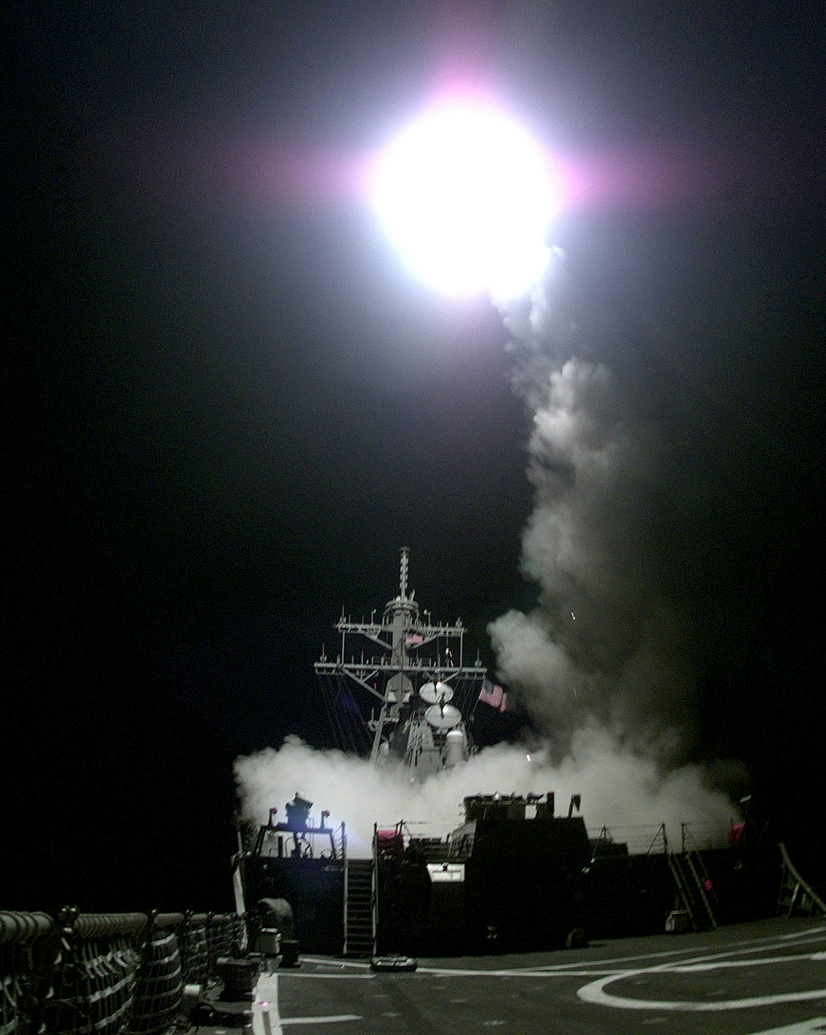 A Tomahawk cruise missile launches from the aft missile deck of the USS Gonzalez (DDG 66) headed for a target in the Federal Republic of Yugoslavia on March 31, 1999. The Arleigh Burke Class destroyer is operating in the Adriatic Sea in support of NATO Operation Allied Force.